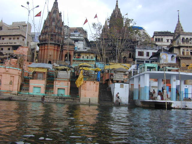 See Varanasi Development Cooperation Handbook/Stories/Responsible Development - Varanasi The Varanasi Heritage Dossier Kautilya Society Play media Vrinda Dar - How we got involved in heritage protection of Varanasi